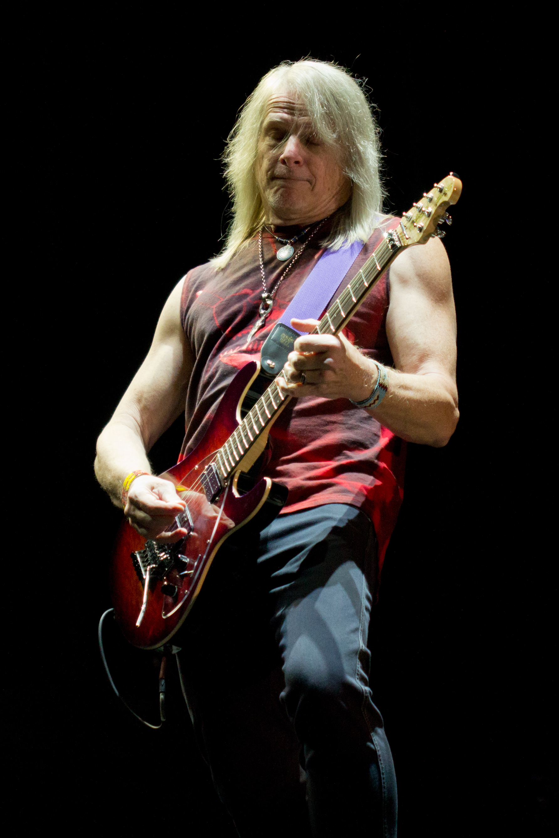 Deep Purple performing at Músicos en la naturaleza 2013 in Hoyos del Espino, Ávila, Spain.